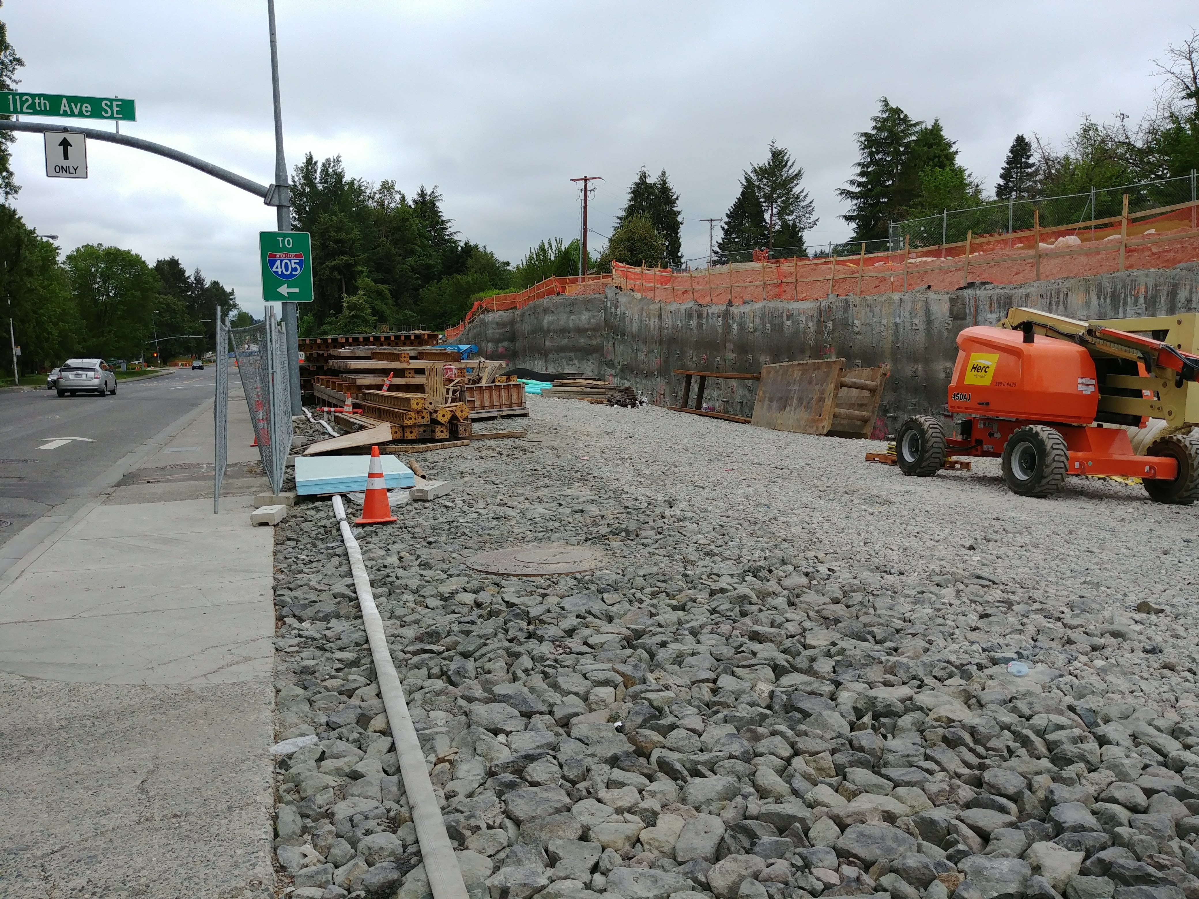 East Link Extension under construction adjacent to 112th Ave SE in Bellevue, Washington